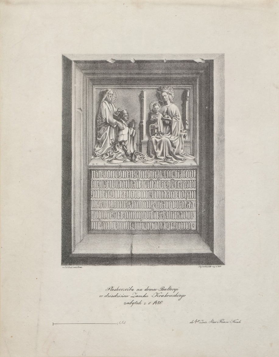 Bas-relief on the Psalteria building in Cracow